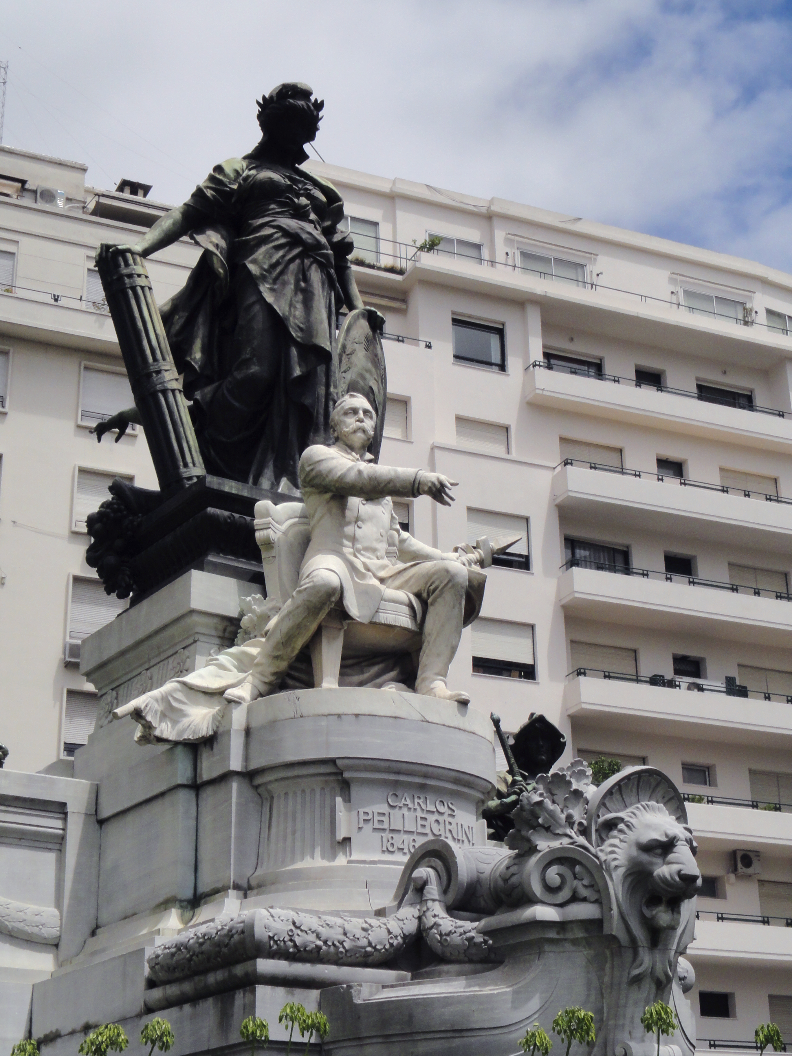 Monument to former Argentine President Carlos Pellegrini; the work of French sculptor Félix Coutan, it was unveiled in 1914. Carlos Pellegrini Square, Buenos Aires.